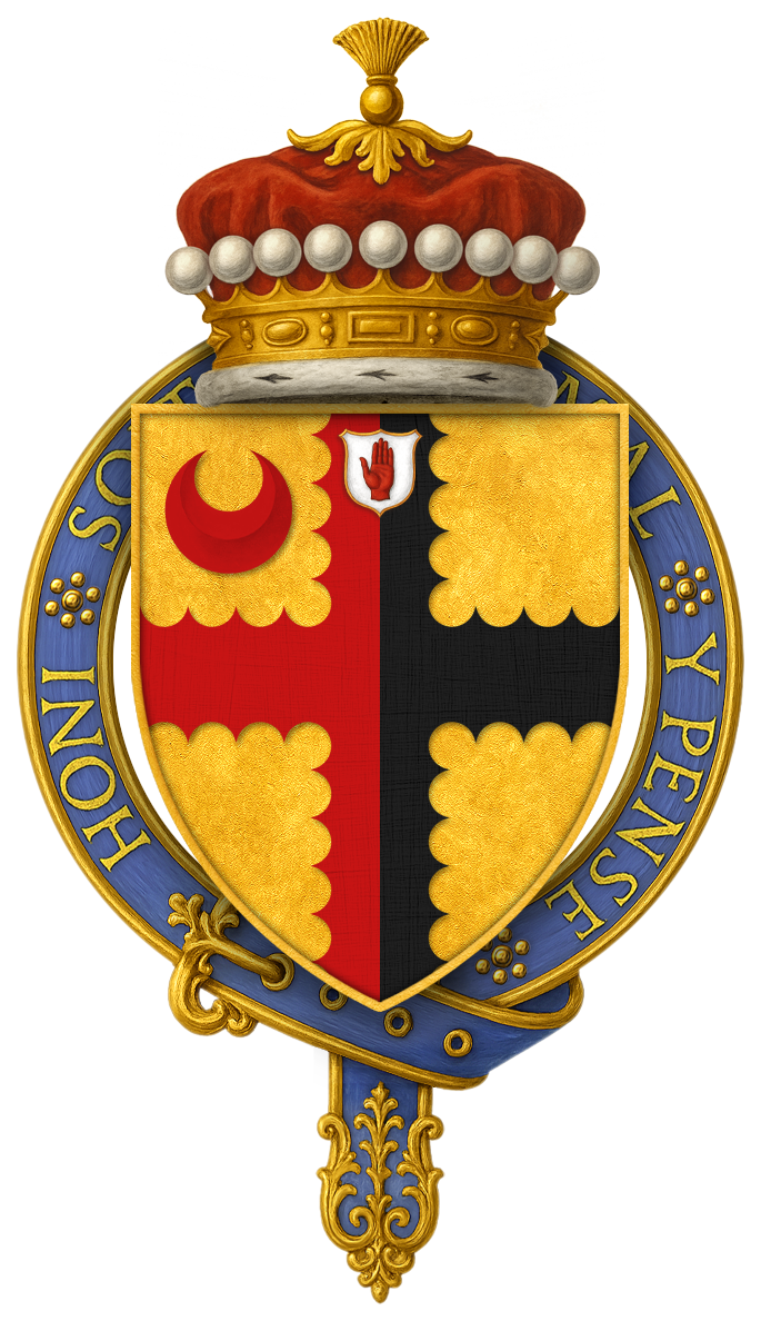 Garter-encircled coat of arms of Basil Brooke, 1st Viscount Brookeborough, KG, as displayed on his Order of the Garter stall plate in St. George's Chapel, Windsor Castle.